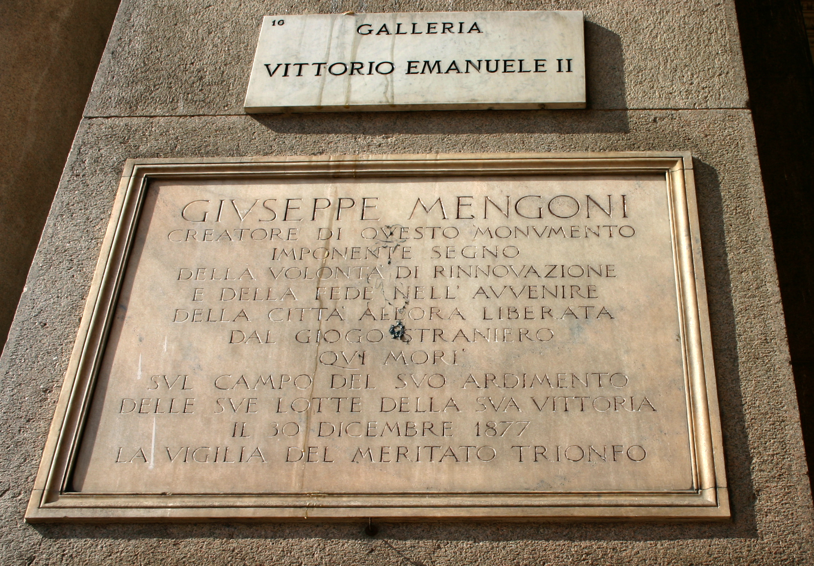 Gallery Vittorio Emanuele II in Milan, Italy: plaque commemorating Giuseppe Mengoni, the architect who designed it. As the plaque commemorates, Mengoni died falling from a platform while making the final check before the inauguration of the building. Picture by Giovanni Dall'Orto, March 8 2007.